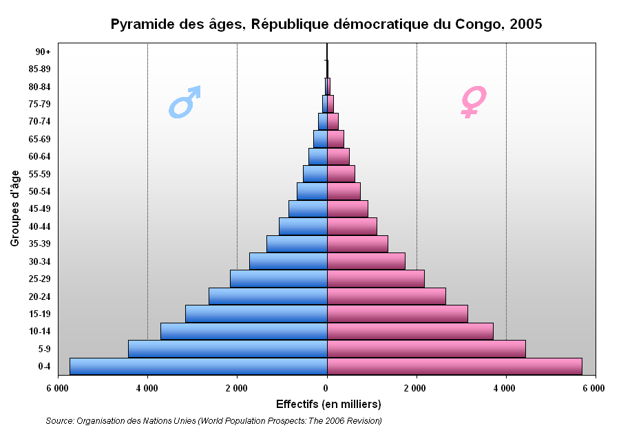 Democratic Republic of the Congo Population pyramid, 2005